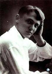 Minkus Mikhail Adolfovich (Dec. 12 (25), 1905 - Aug. 31, 1963 )Son of the architect A.B. Minkus. He studied at the architectural department of the Odessa Institute of Fine Arts (1923-1925), then at the Art Academy in Leningrad (1925-1930). From 1930 he worked in Moscow, the first in a workshop VA Shuko and IA Fomin, then PA Golosov. During World War II was engaged in construction of fortifications around Moscow. The most significant buildings: the Great Stone Bridge, a six-story garage on the street Presnensky Val (1936-1941), metro stations "Botanic Garden" (now "Prospect Mira"), high-rise building on Smolenskaya Square (1953, VG Helfreich); participated in the reconstruction of the Pushkin Square (1947), Planning and Development Smolenskaya Square, the streets and the waterfront (1953-1963). Among the graphic works of distinguished architectural sketches of the old Moscow (1934-1941, mostly in Gnehm and private collections). State Prize (1949). He was buried in the Novodevichy cemetery.